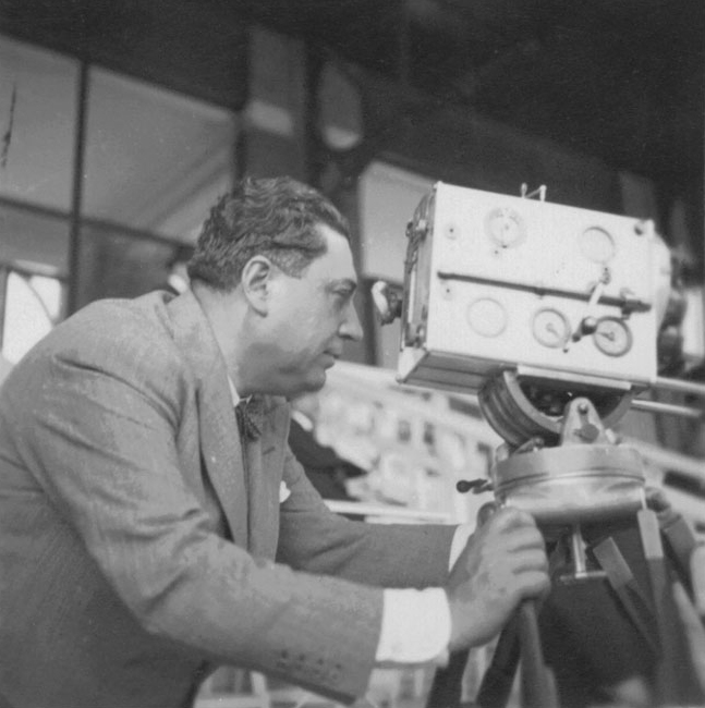 Léonce Perret's photo.